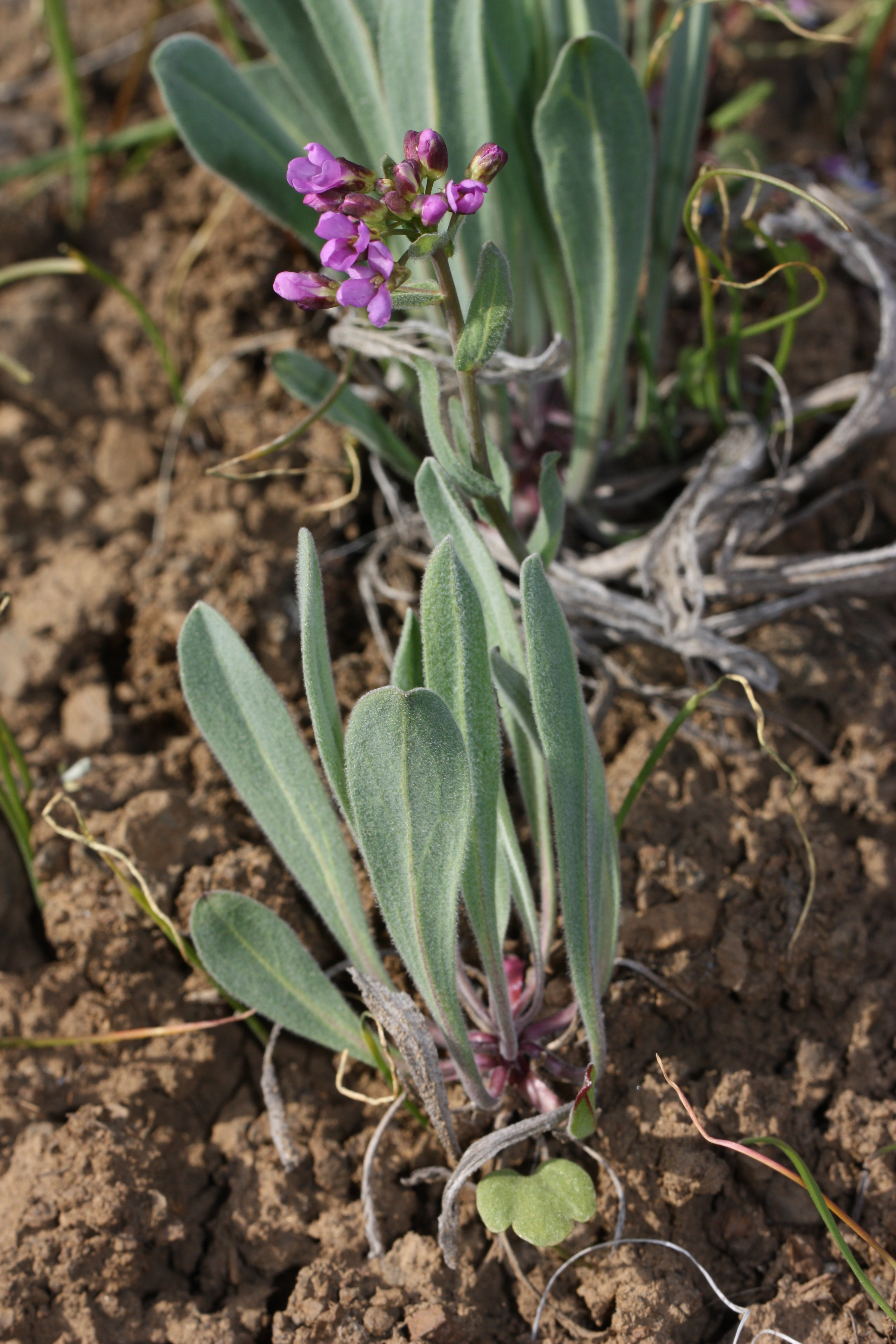 Wallflower Phoenicaulis, Dagger-pod